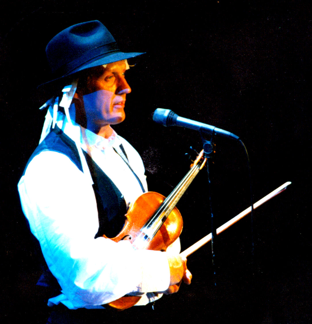 Herman van Veen on stage in Berlin